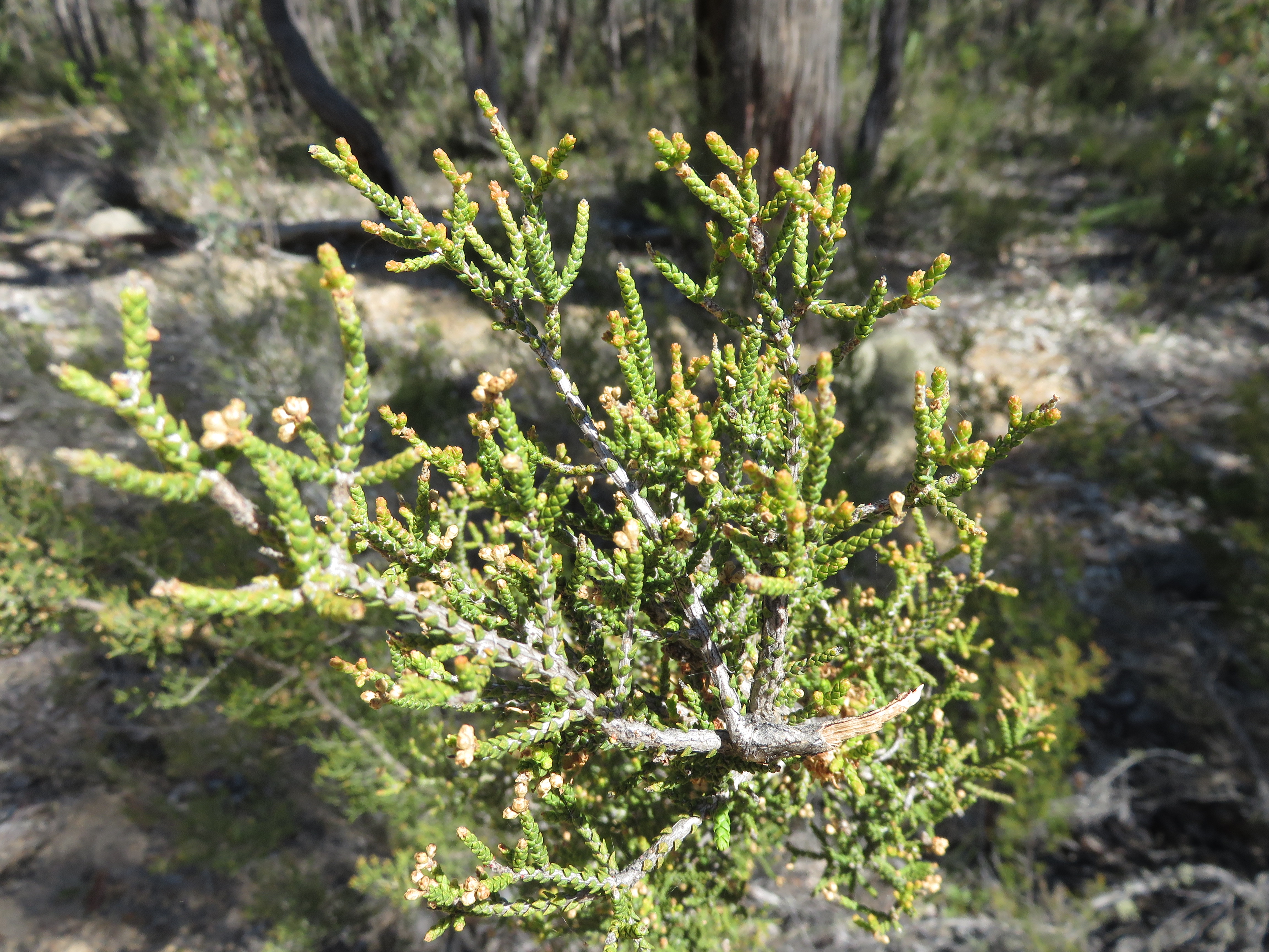 Melaleuca micromera found in Tone-Perup Nature Reserve in November 2015.